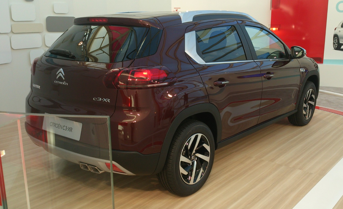 Citroën C3-XR photographed at C_42 Citroën Store on Champs-Élysées in Paris, France.